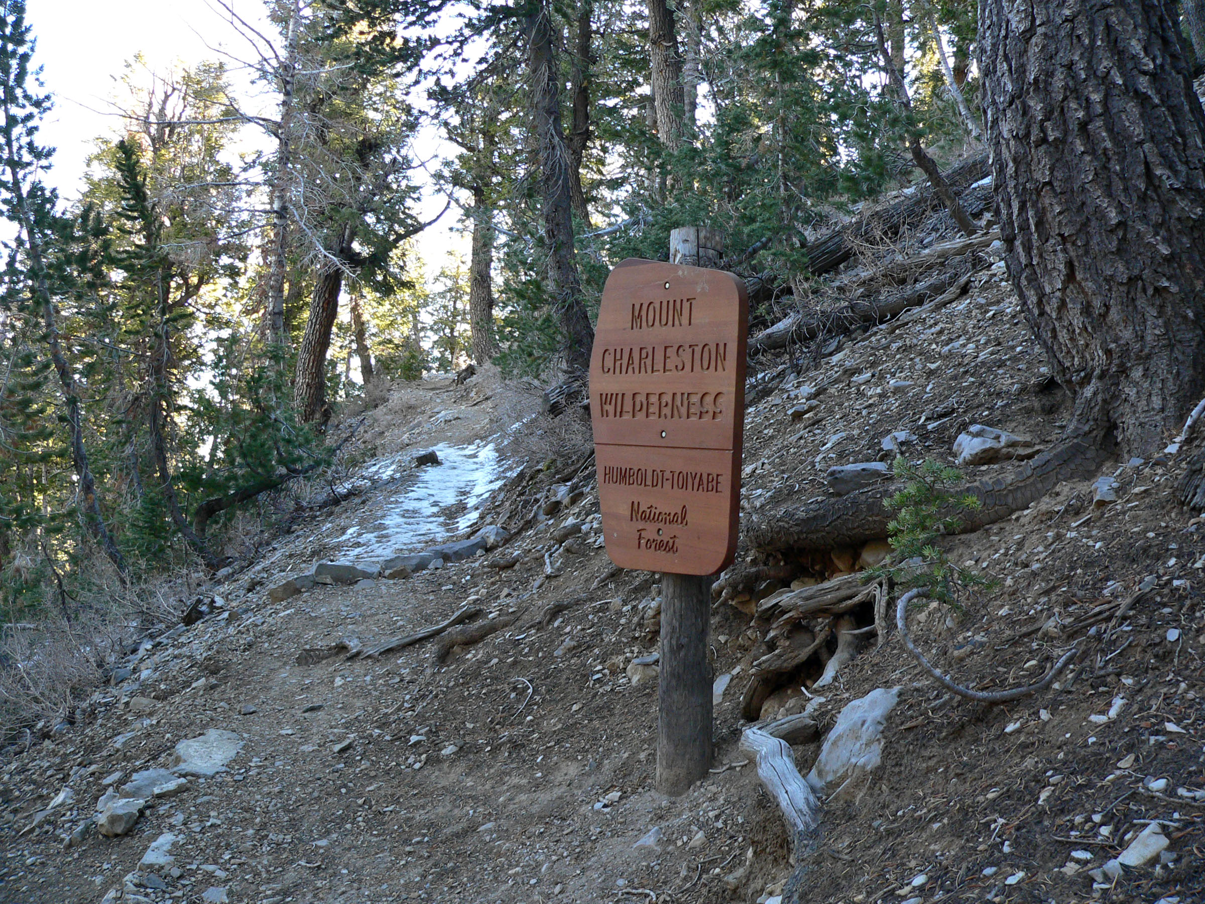 Mount Charleston South Loop trail at entrance to wilderness area, Spring Mountains, southern Nevada